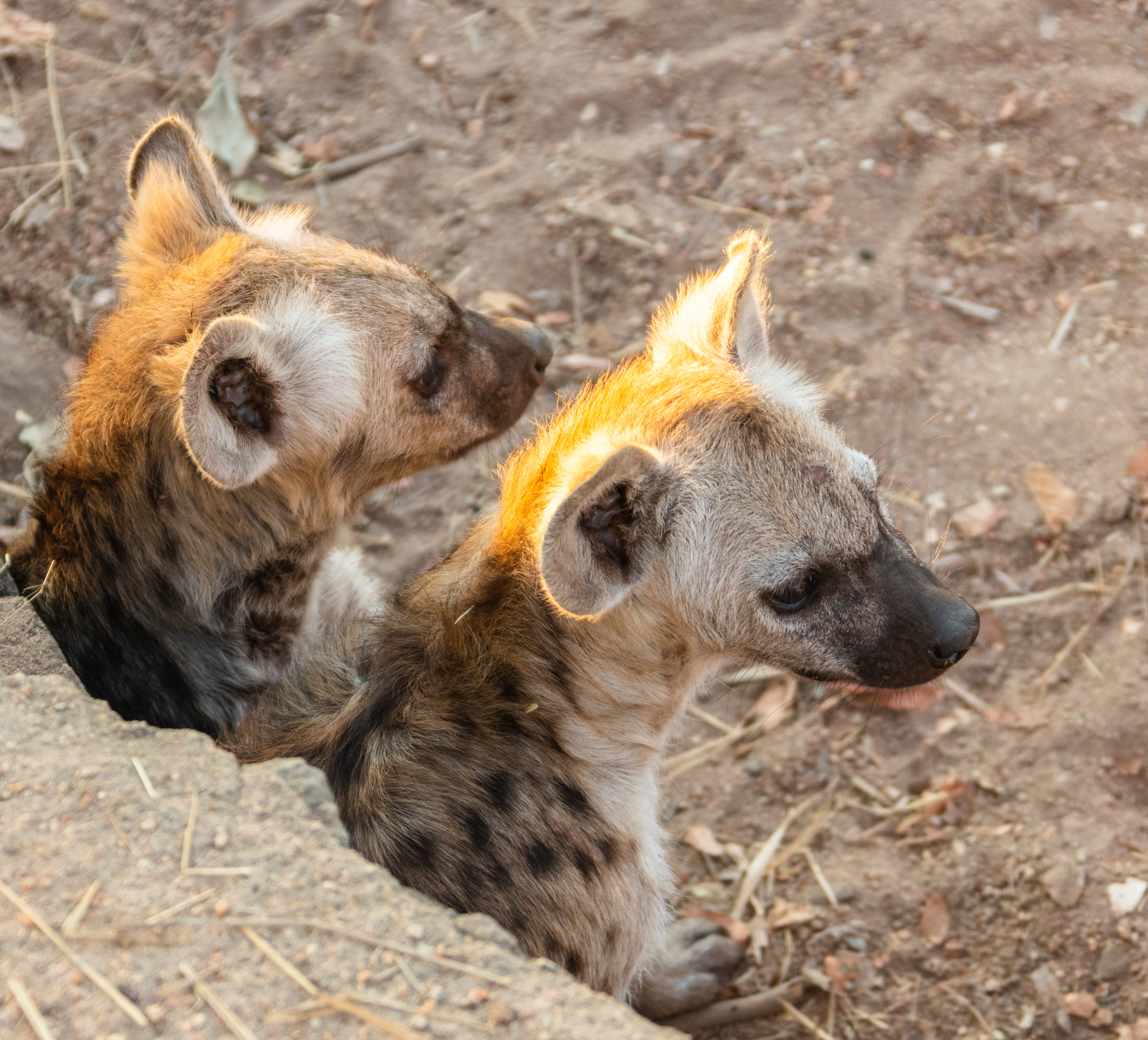 Spotted hyenas (Crocuta crocuta), Kruger National Park, South Africa